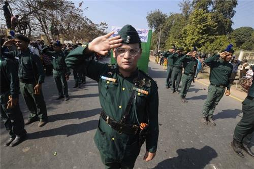 Students inacting Netaji and Indian National Army